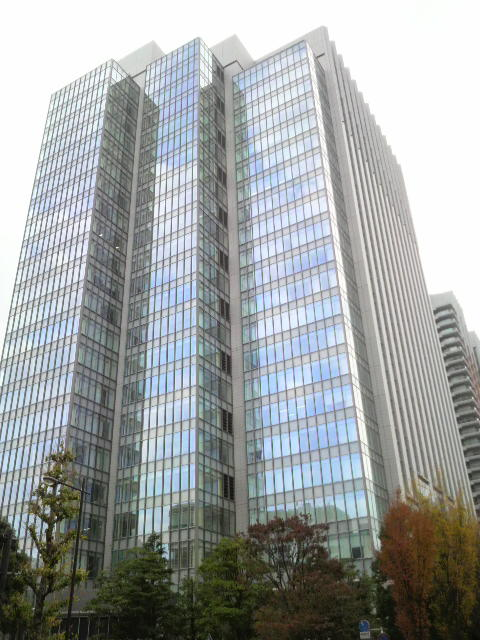 jinbocho mitui